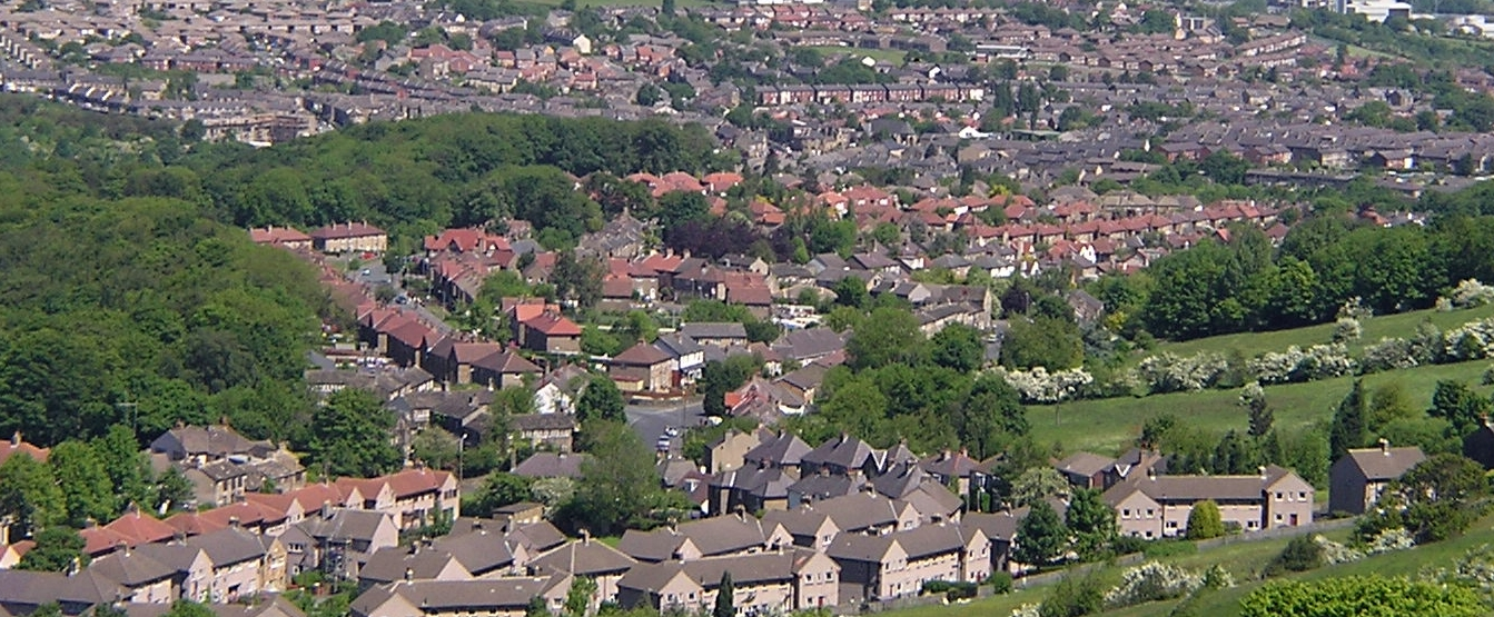 Central area of the image shows Lowerhouses Housing Estate, approx 1 mile south of Huddersfield. To the top of the image are the Dalton and Moldgreen area housing estates. viewed from Castle Hill.